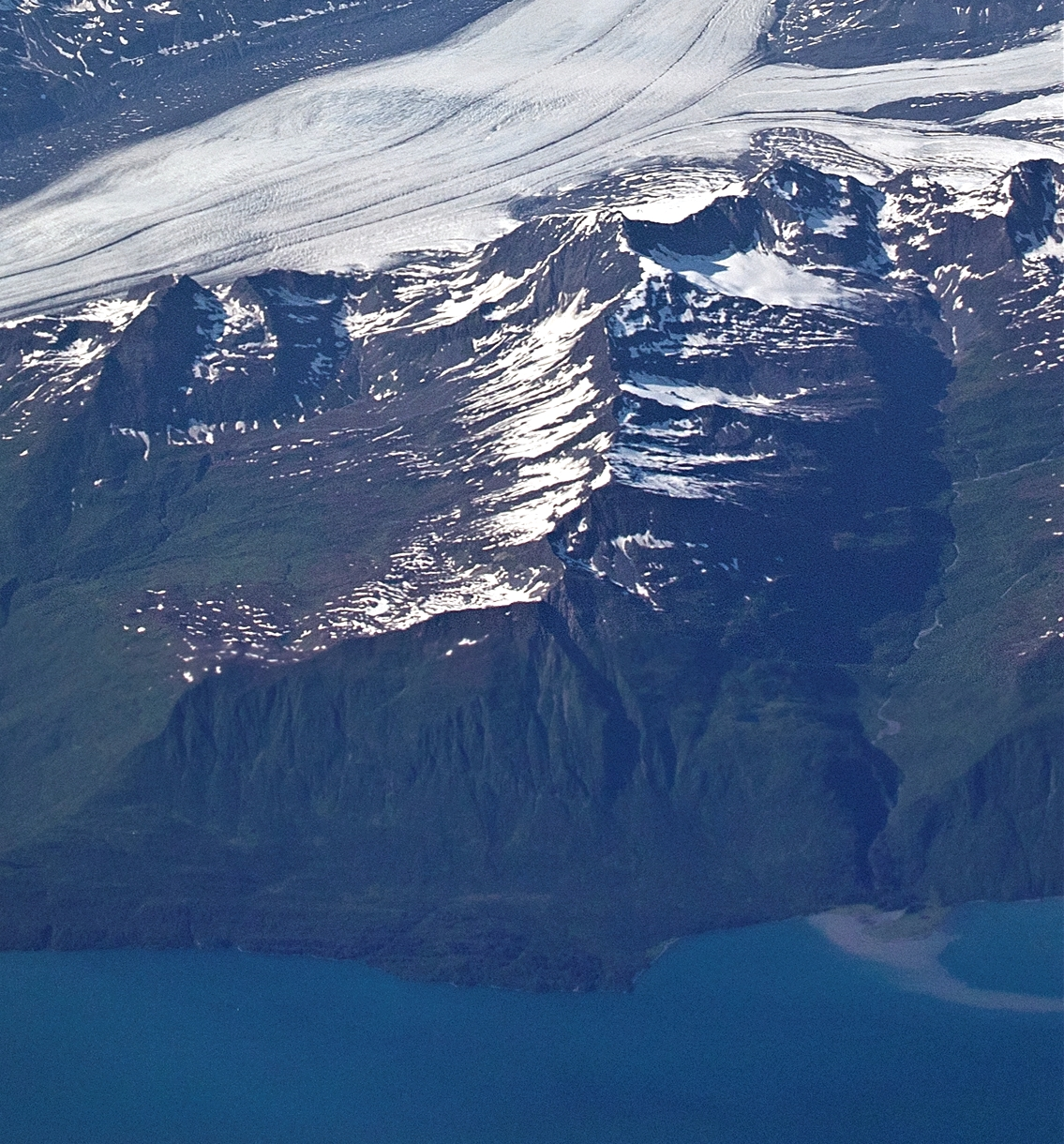 Shoup Glacier and Mt. Hogan